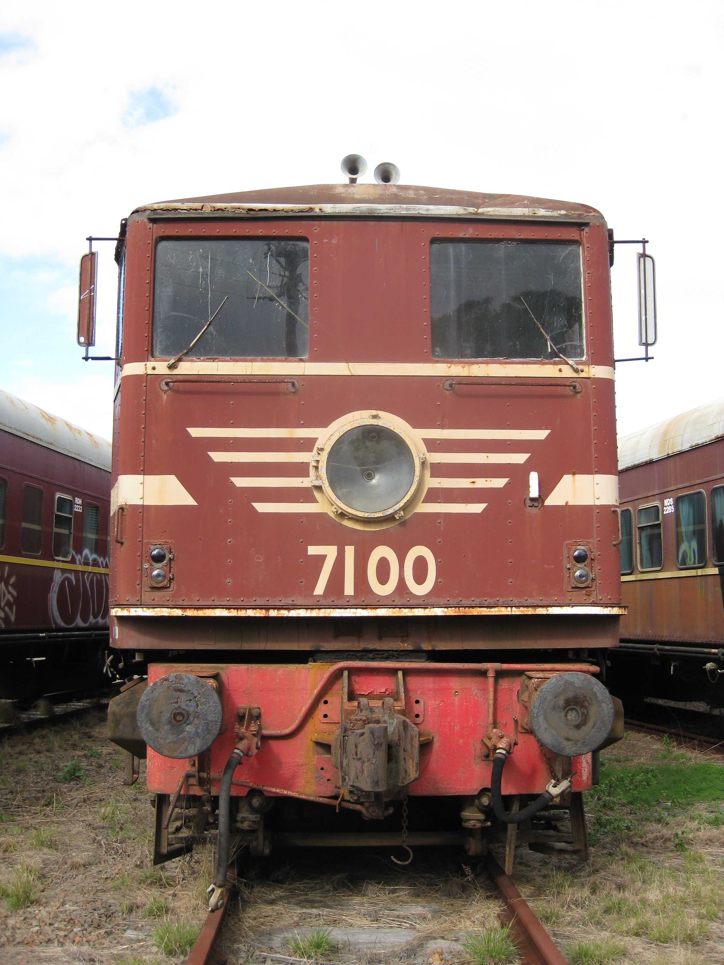 Preserved Department of Railways New South Wales 1500 V DC electric locomotive 7100 stored at Broadmeadow Loco Depot